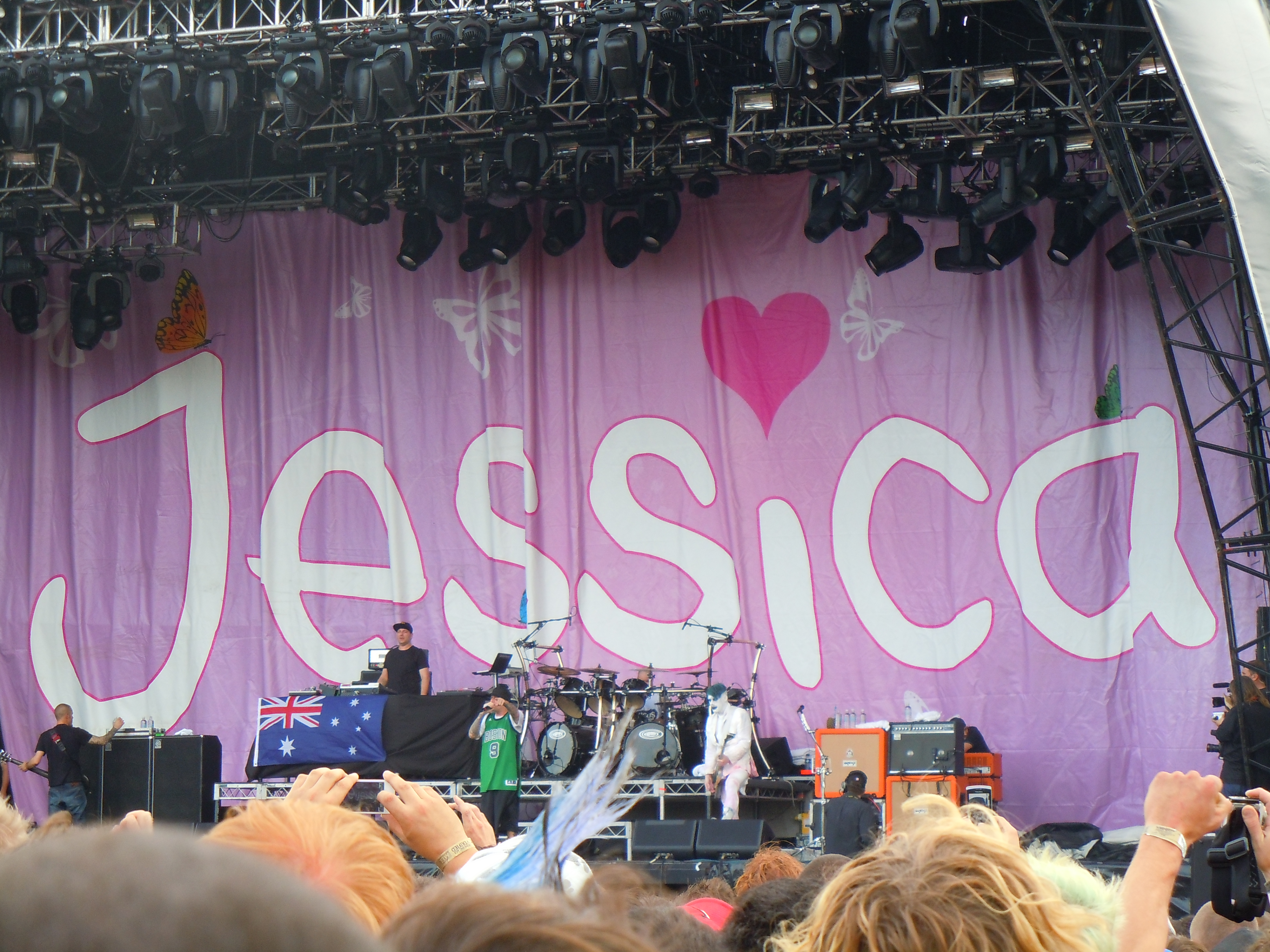 Limp Bizkit tribute during Soundwave 2012 in Melbourne